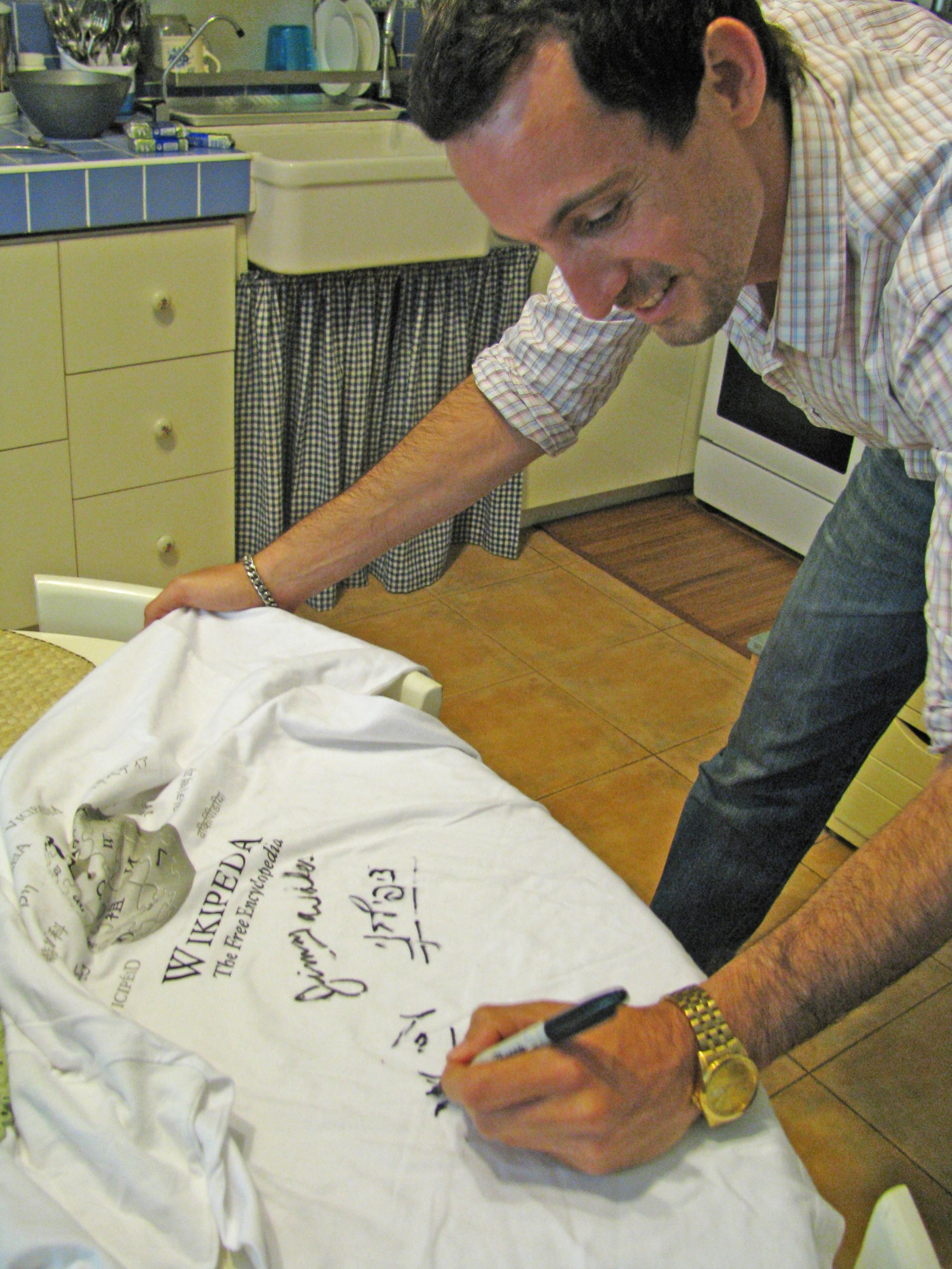 Ivri Lider, an Israeli pop rock singer-songwriter, signing on the Free Travel-Shirt, Israel